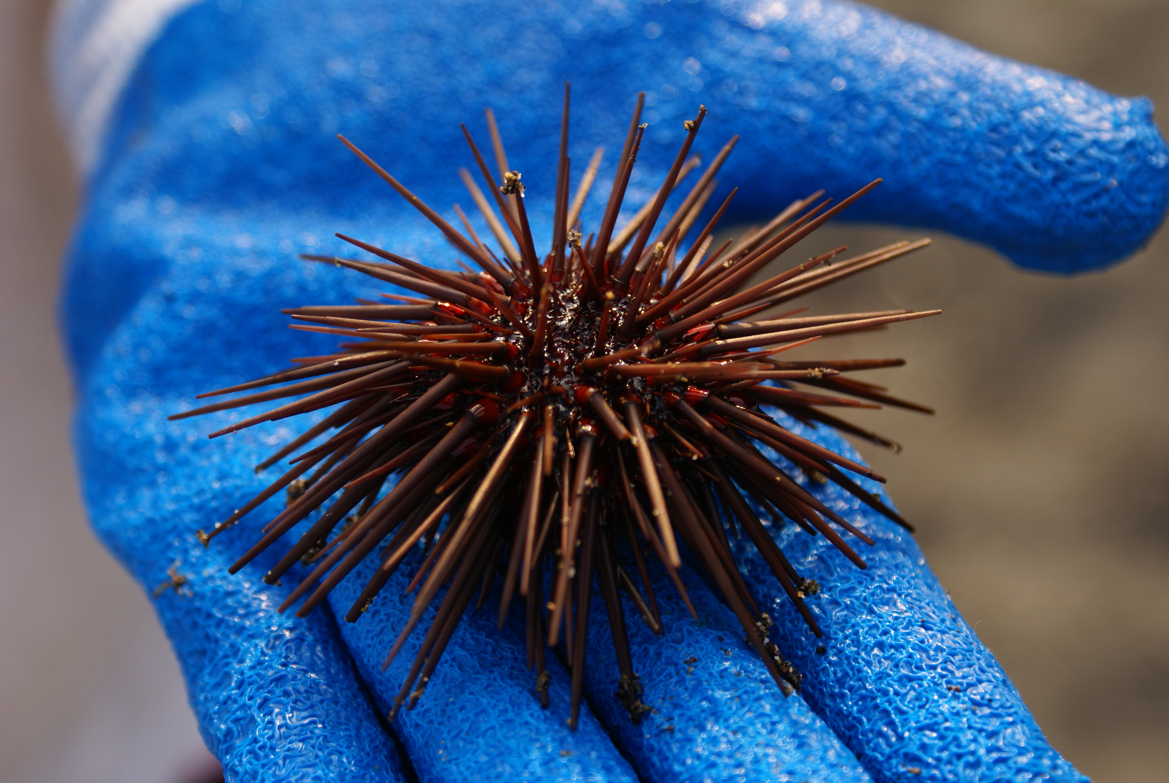 sea urchin out of the coast of Veracruz Mexico